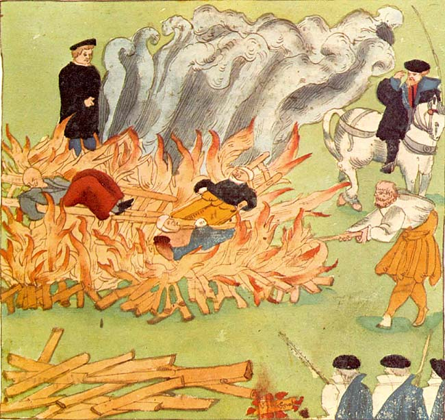 execution of three witches on 4 November 1585 in Baden (Switzerland), illustration from the Wickiana (collection of Johann Jakob Wick, Zentralbibliothek Zürich)